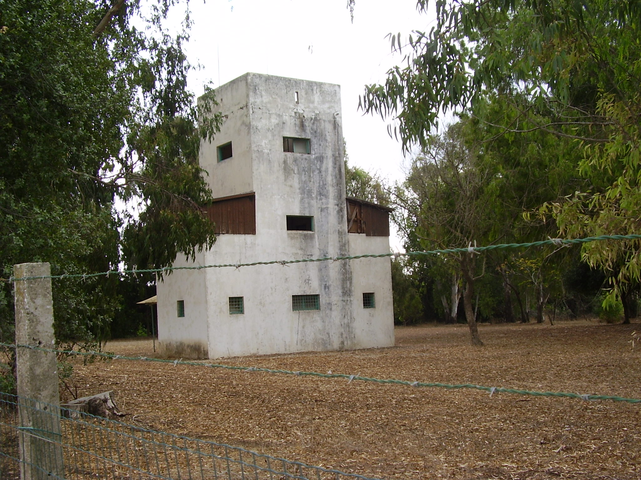 old security house of kibbutz dalia